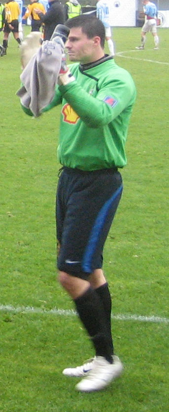 Stefán Logi Magnússon. An Icelandic football goalkeeper, the main goalkeeper for the Icelandic team KR Reykjavík and also an Icelandic international player.